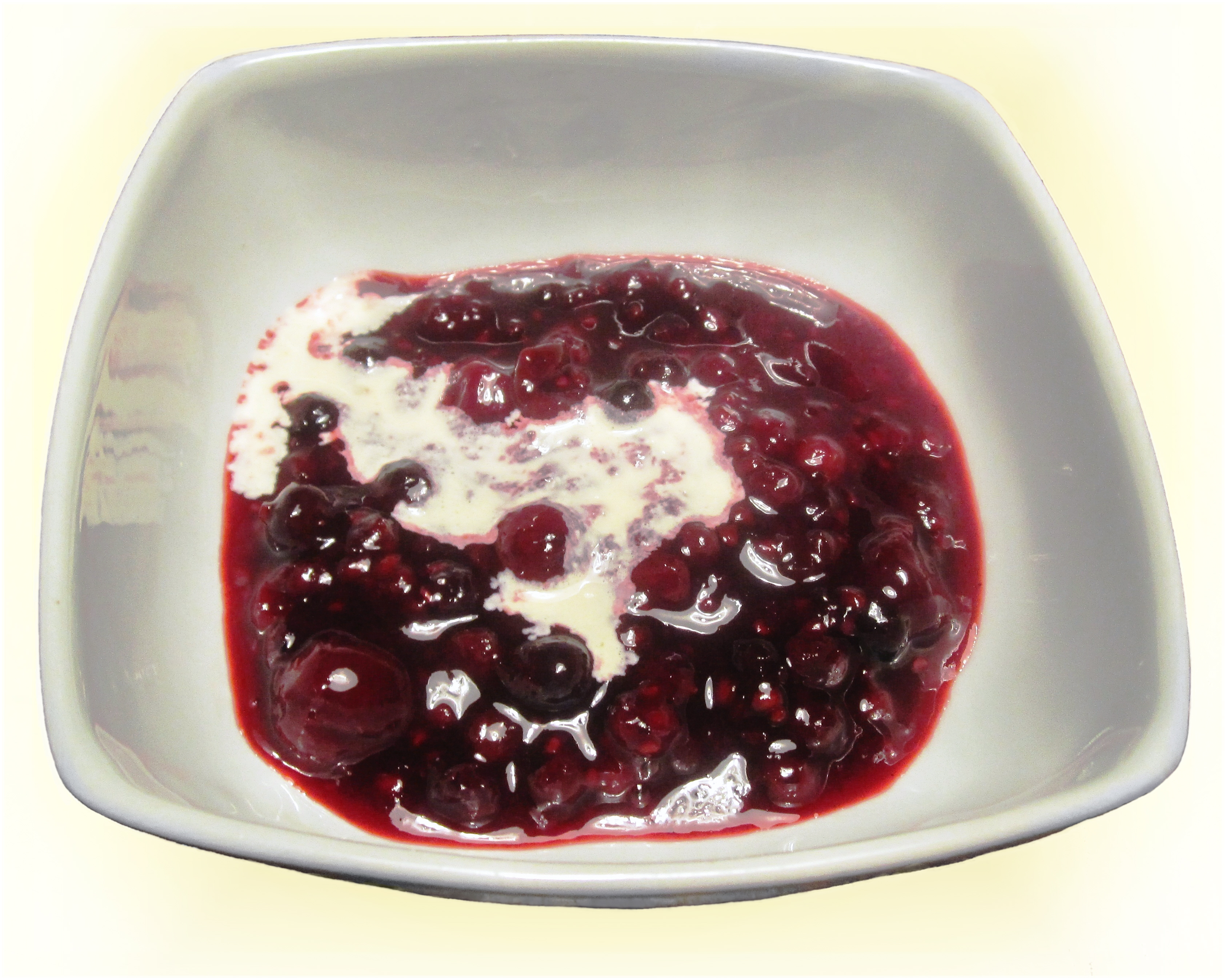 Rote Grütze. A typical German dessert.